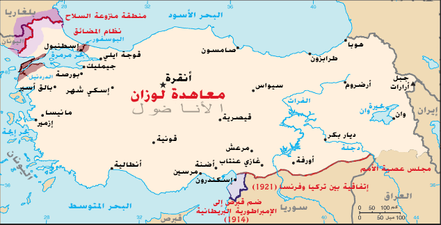 Treaty of Lausanne